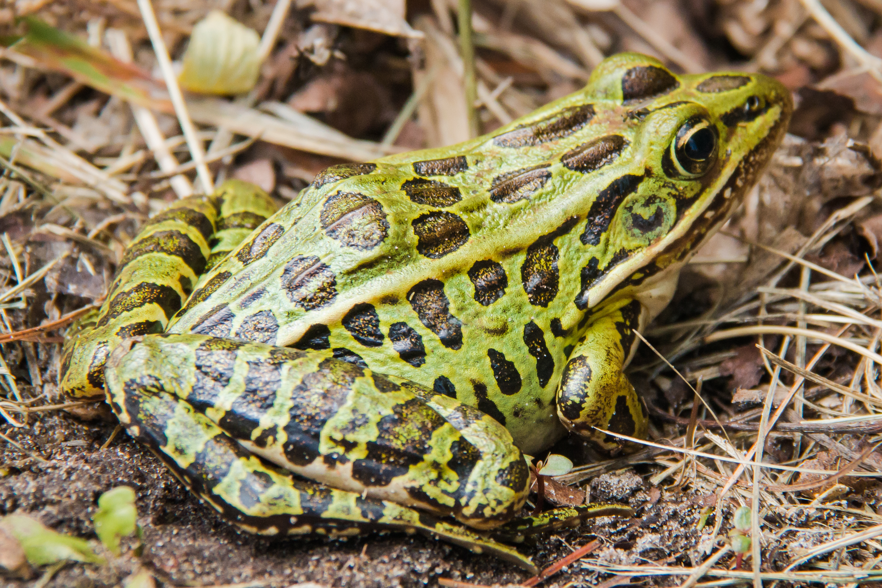 Lithobates sphenocephalus